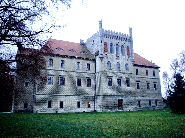 Ksiaz Wielki - castle